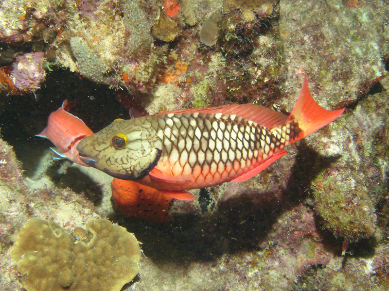 Stoplight parrotfish (Sparisoma viride), initial-phase